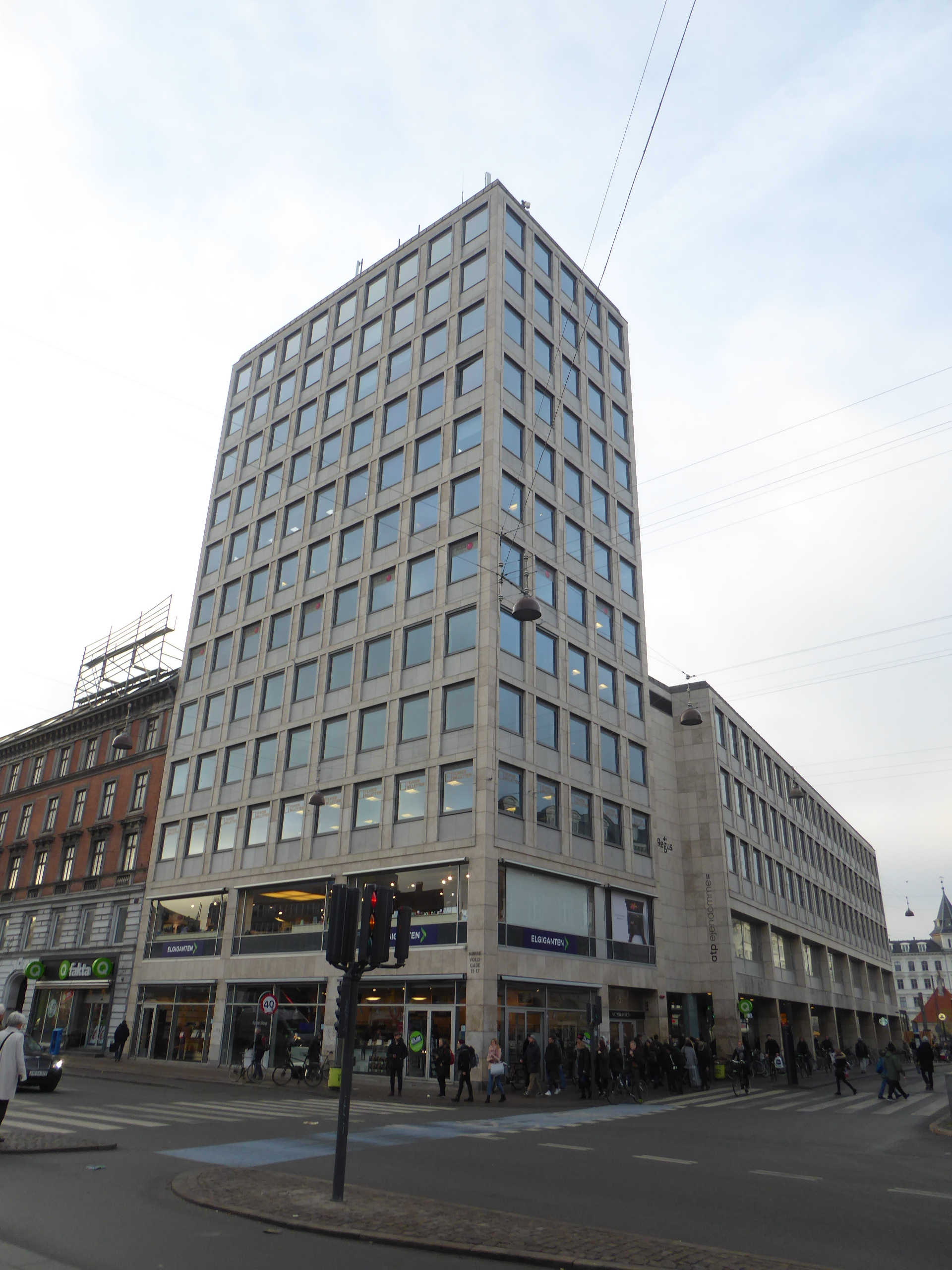 The high-rise Nørreport at the corner of Nørre Voldgade and Frederiksborggade, opposite Nørreport Station in Indre By in Copenhagen.